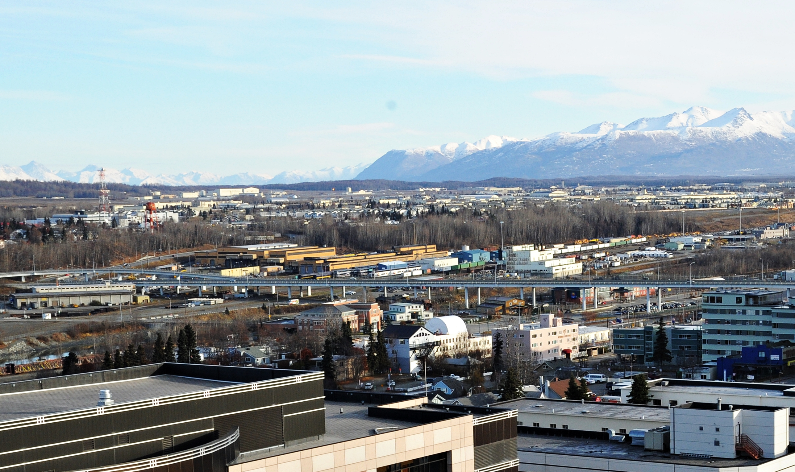 View from the Hotel Captain Cook. From foreground to background: northwest and north-central portions of downtown Anchorage; Ship Creek, with the Alaska Railroad terminal yards and the A and C streets couplet coming together at a bridge spanning the valley and yards; Government Hill; Elmendorf Air Force Base (now part of Joint Base Elmendorf-Richardson); the Chugach Mountains and the Talkeetna Mountains.